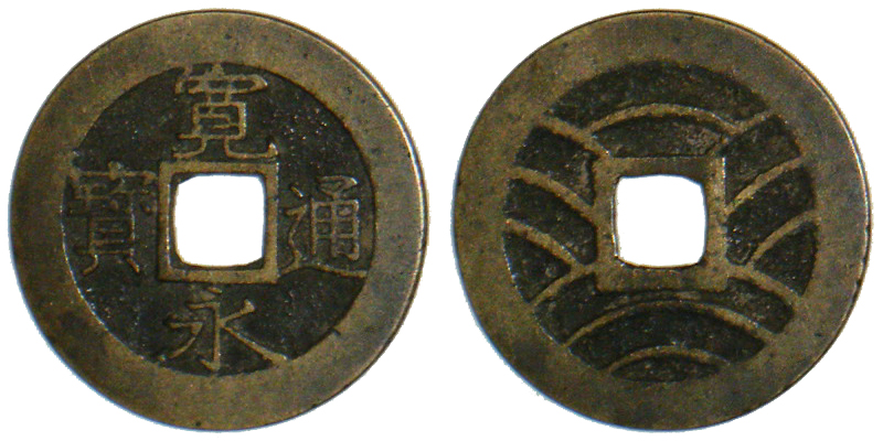 Kanei-tsuho-to4-11nami